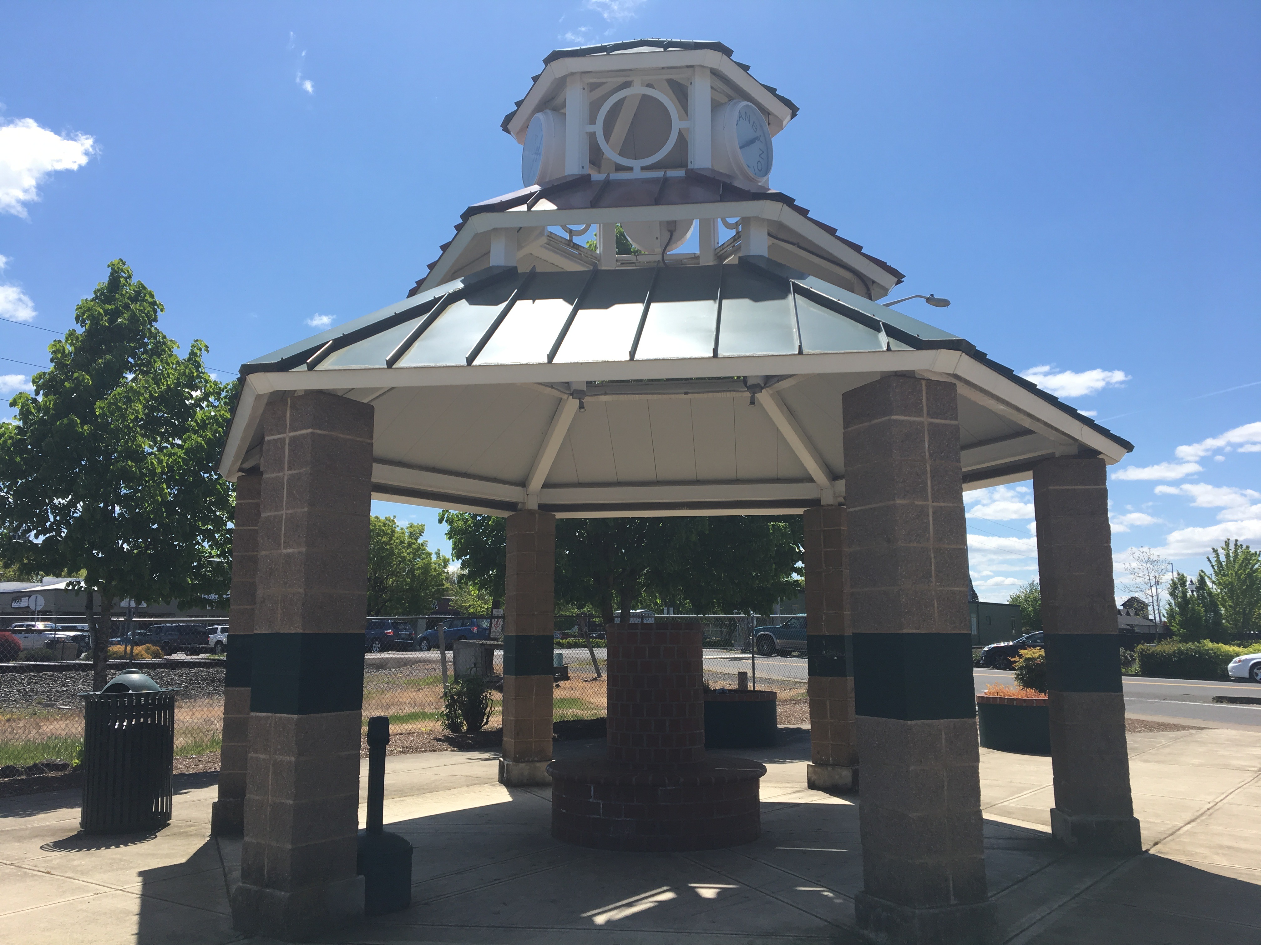 Canby, OR